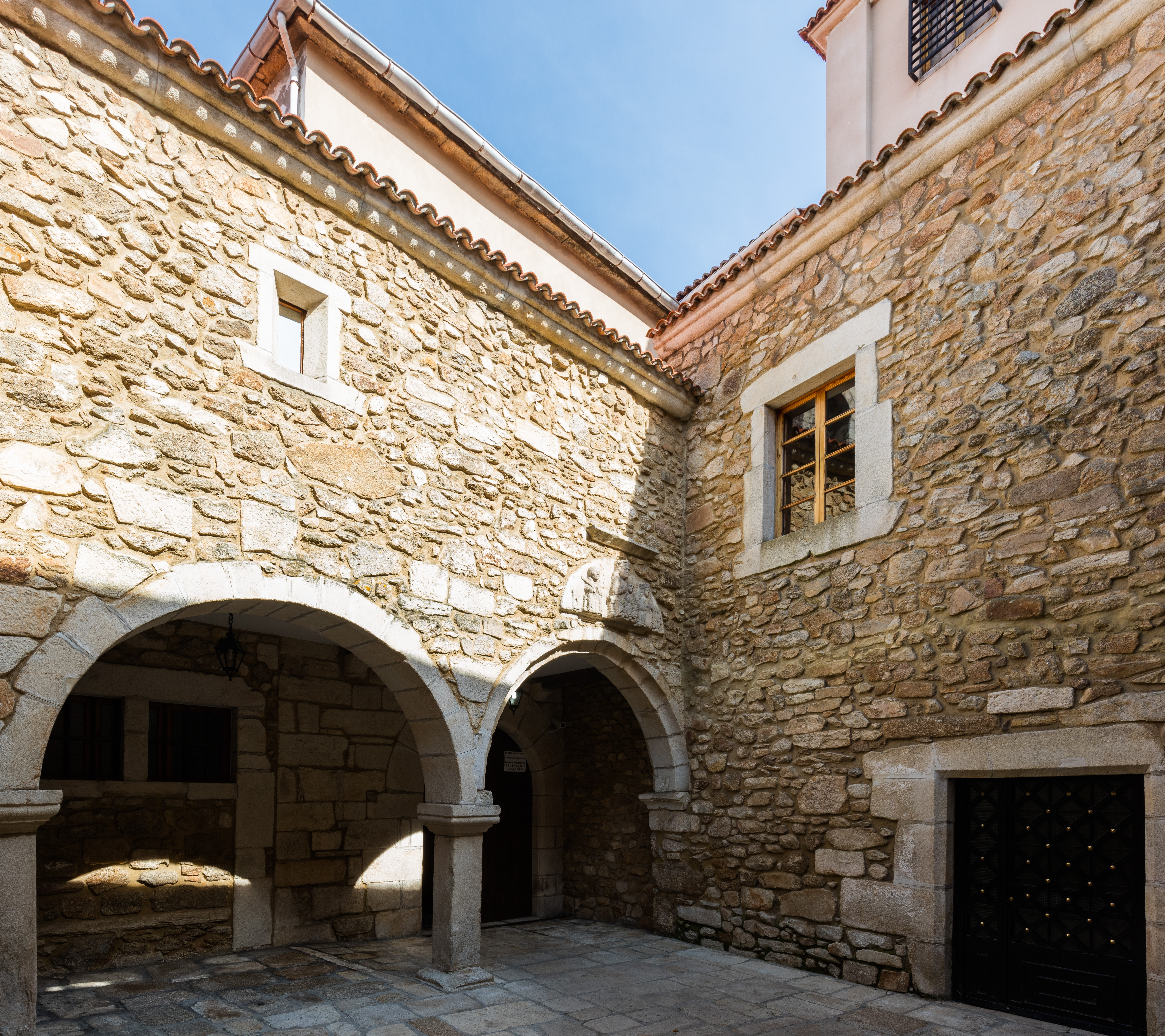 St Barbara convent, La Coruña, Spain